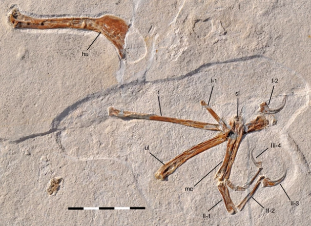 Alcmonavis holotype